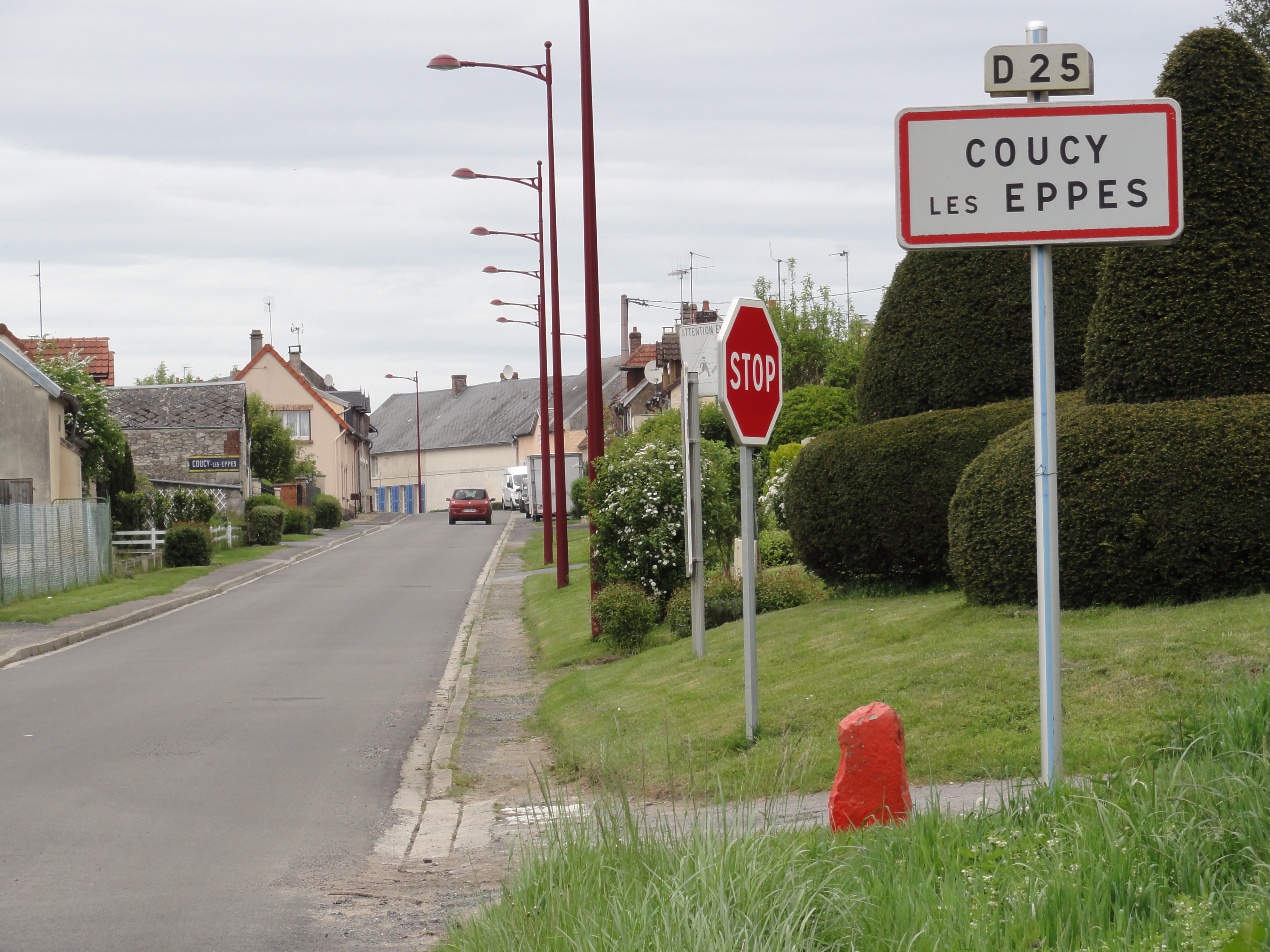 Coucy-lès-Eppes (Aisne) city limit sign